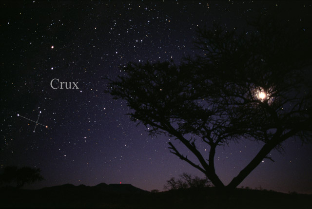 Photo of the constellation Crux, the Cross